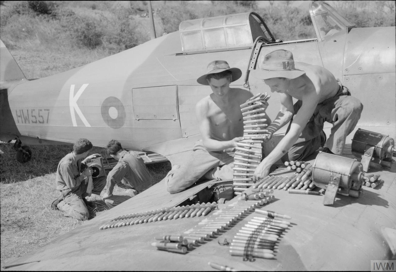 A Royal Air Force Hawker Hurricane Tac R Mark IIC (HW557 'K') of No. 28 Squadron RAF, is prepared for an armed reconnaissance sortie at Sadaung, Burma. Corporal E. Yeo (left) and Leading Aircraftman C.E. Bland load the 20 mm wing cannons with belts of ammunition, while LACs D.L. Worthington (left) and E.H. Davey install a Type F.24 aerial camera in the rear fuselage vertical position of the aircraft.